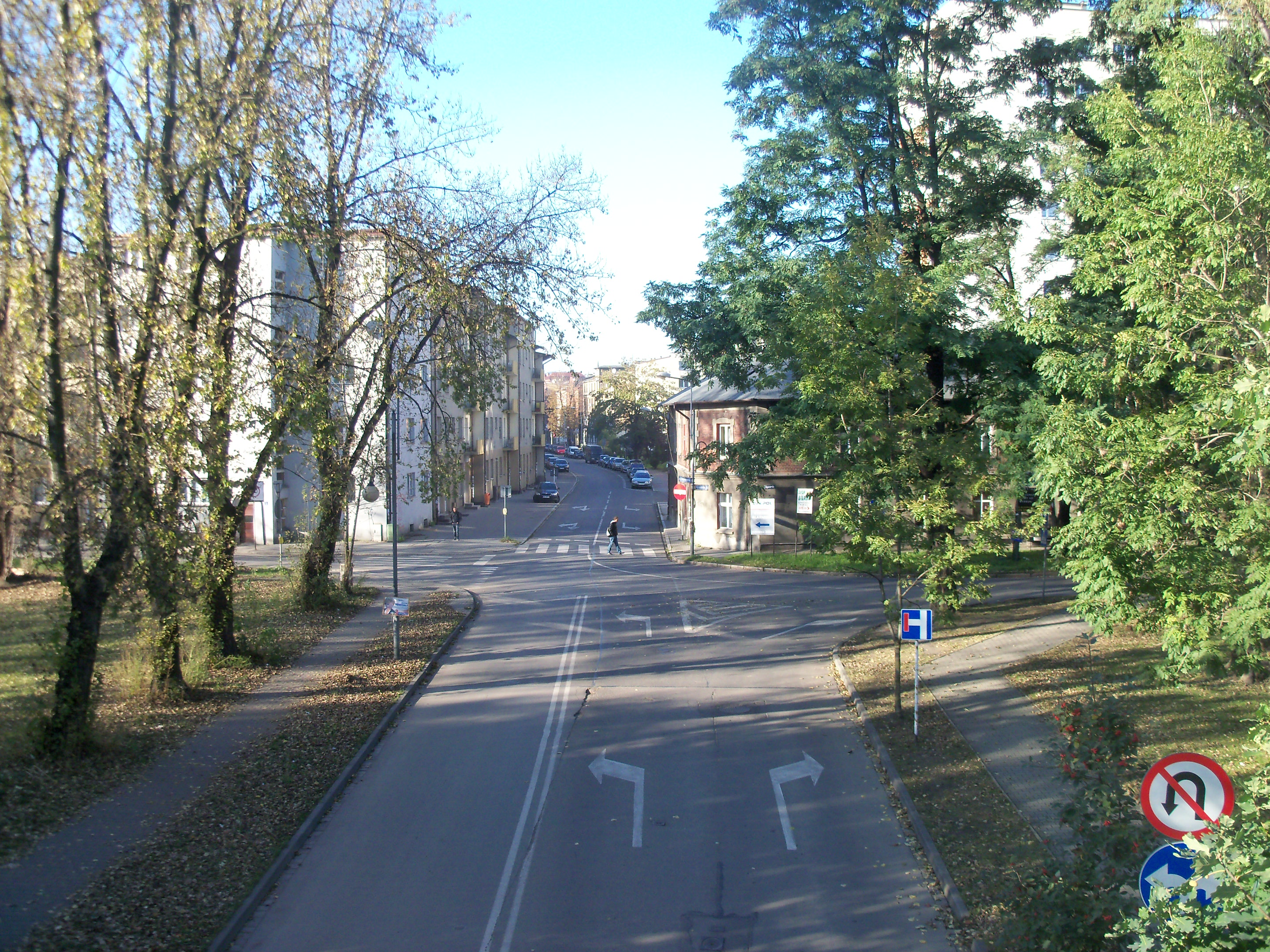 Markiefki Street in Katowice-Bogucice